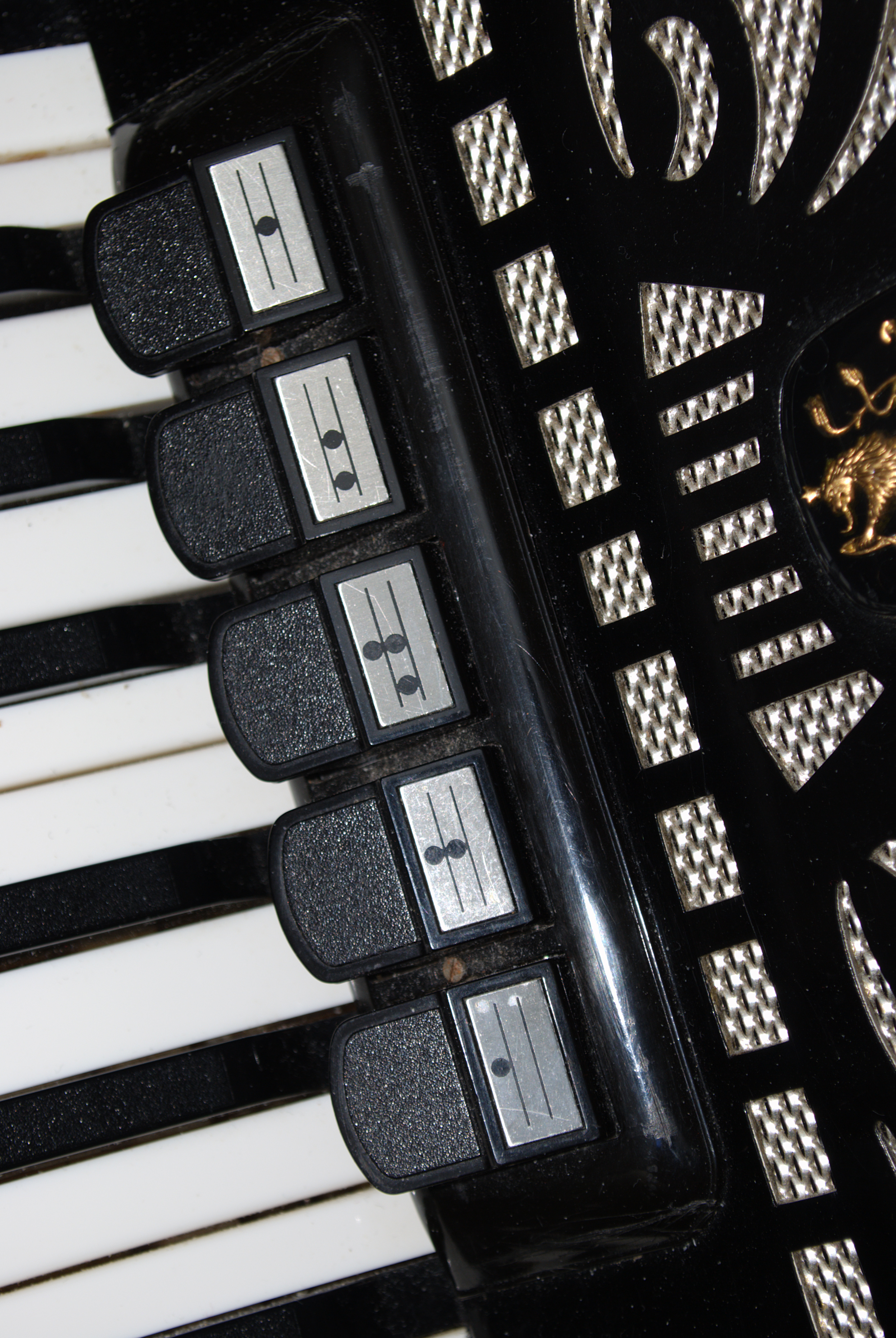 A preview of a few register switches on an accordion's right-hand manual.